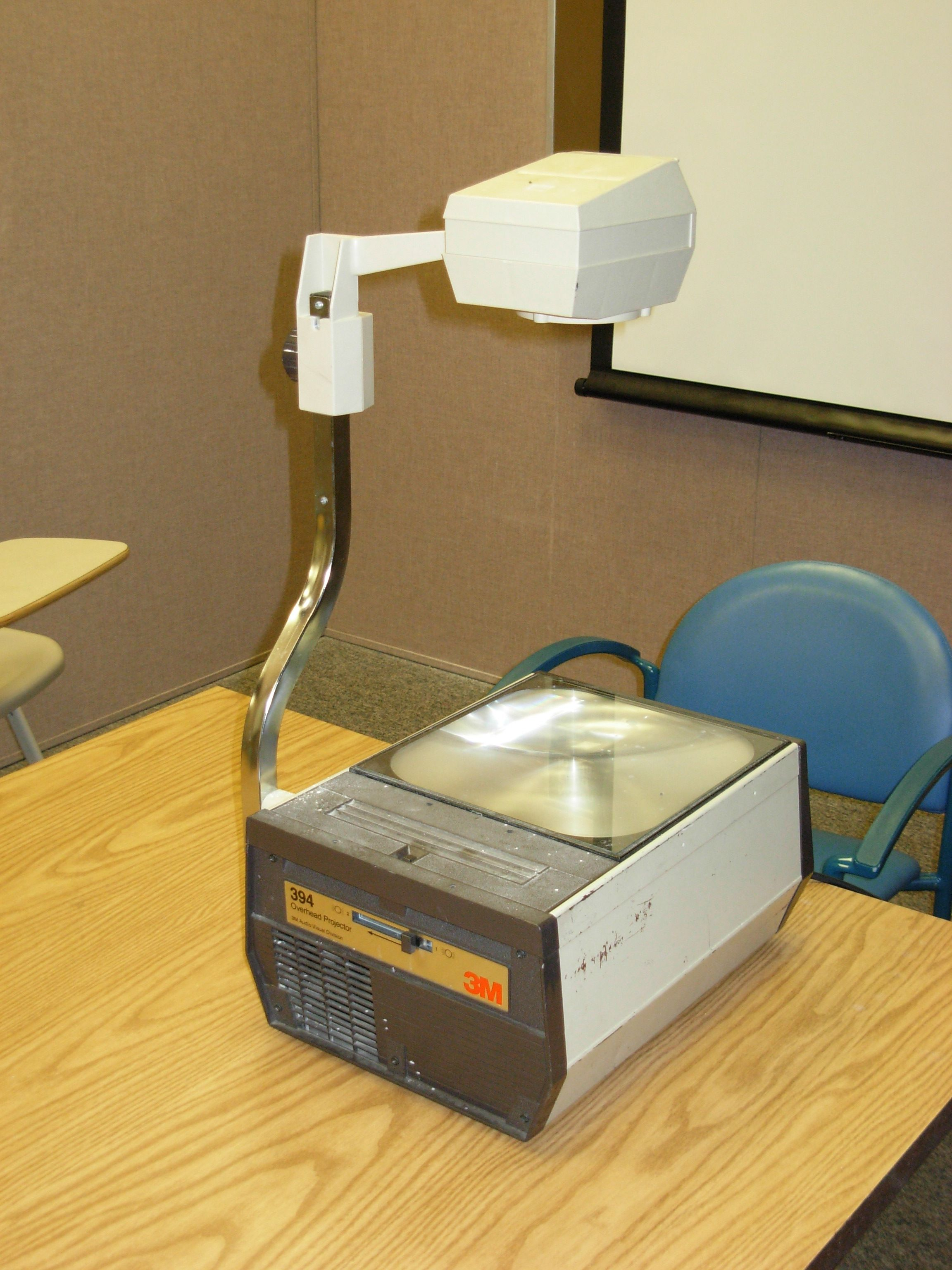 Overhead projector, 3M. Photo by myself.